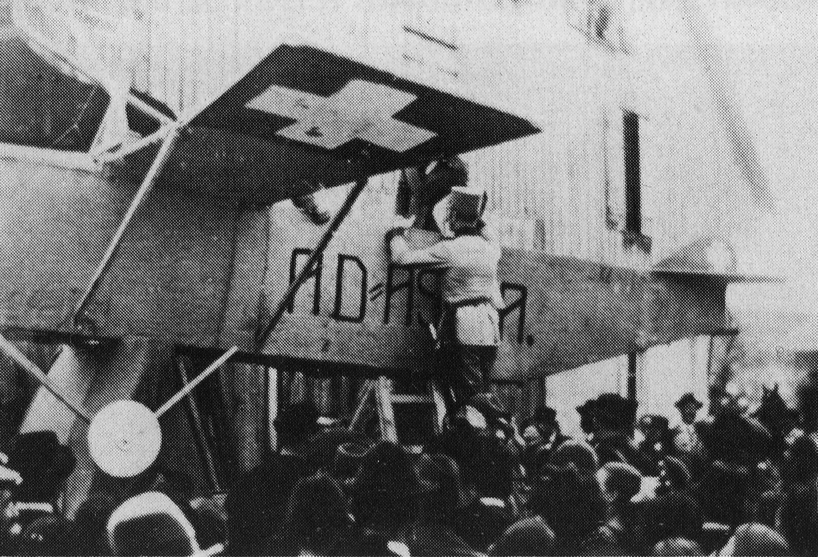 Carnival Cart at Baſſersdorff mocking King Charles IV, who had flown from the nearby Airfield at Dübendorff to Sopron on the 20th October 1921 to reclaim the Throne of Hungary.